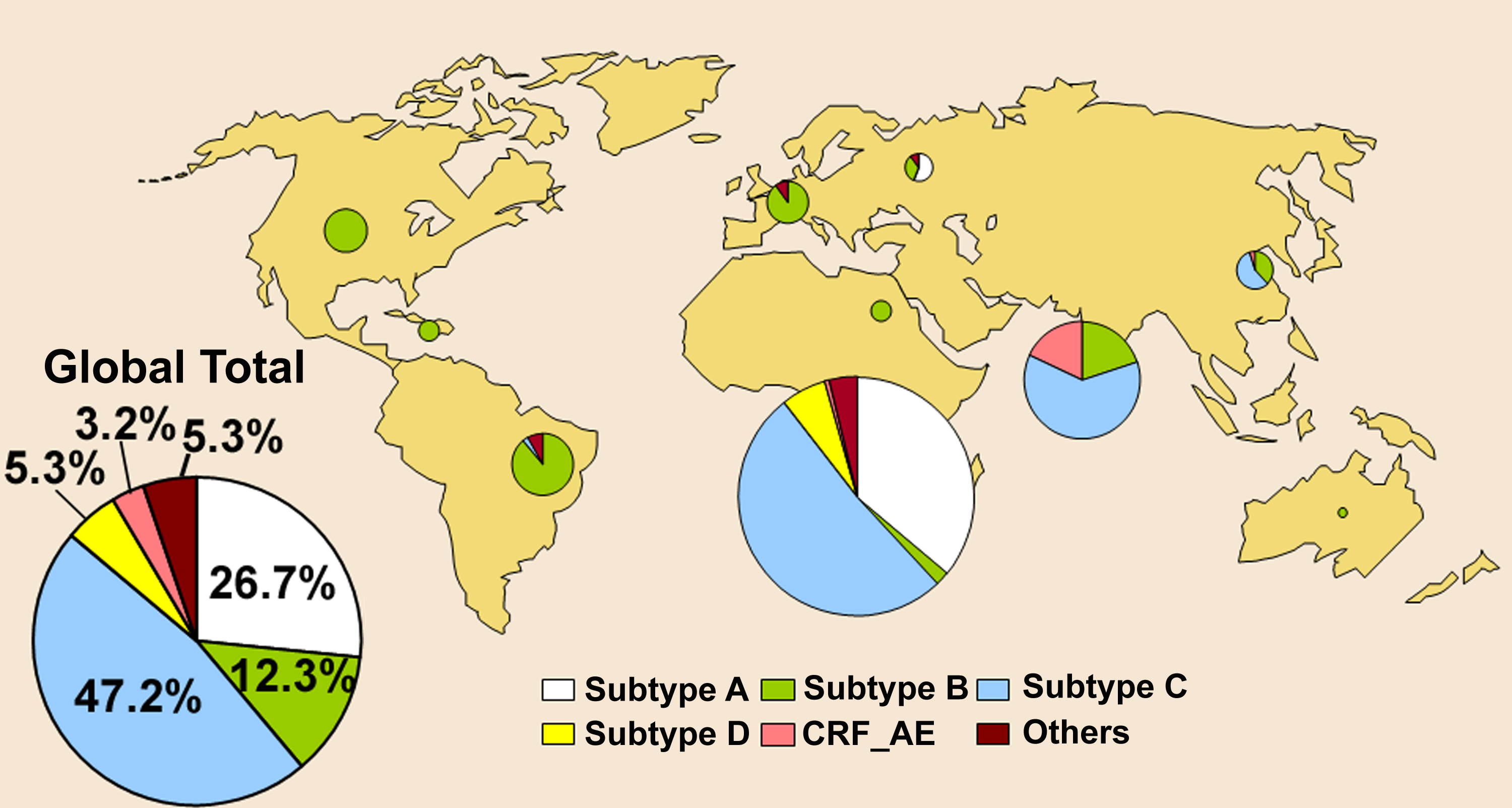 Map showing HIV-1 subtype prevalence in 2002